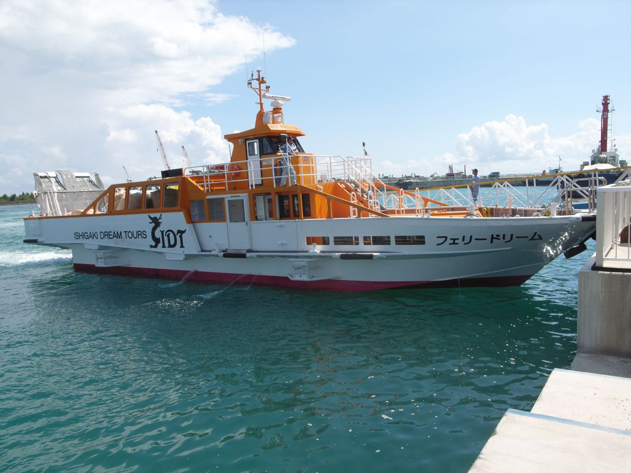 Cargo-Passenger Ship "Ferry Dream" of Ishigaki Dream Tours, Ishigaki City, Okinawa, Japan